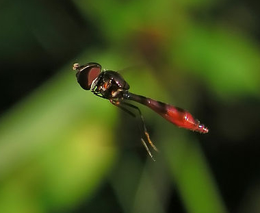 Ocyptamus sp. Flower Fly captured in flight